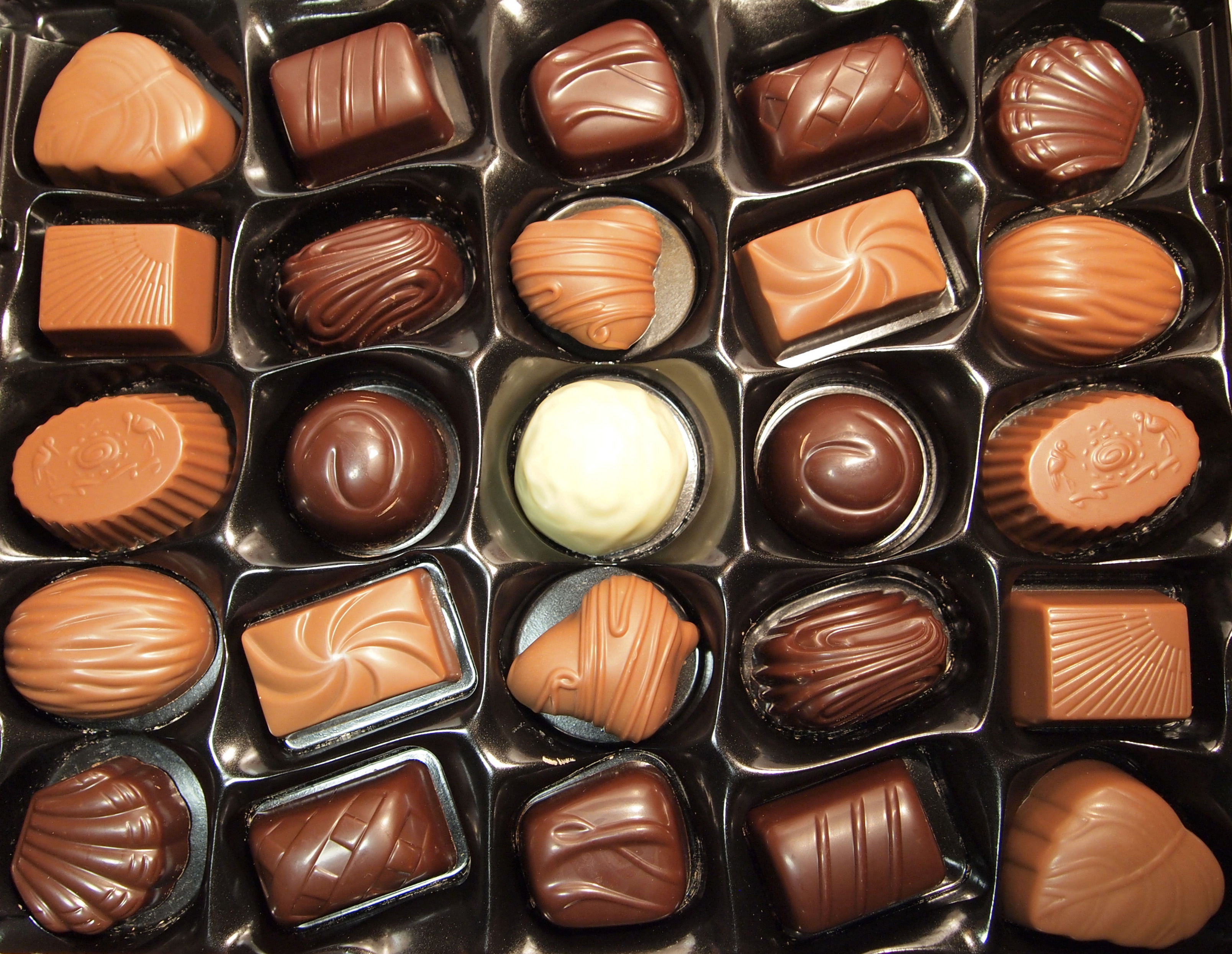 Aladdin chocolate by Marabou (2013). This photograph was taken with an Olympus E-PL1.